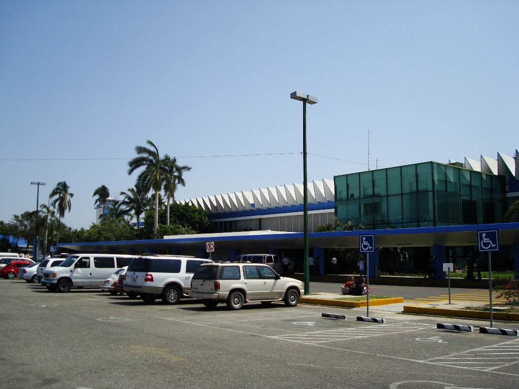 General Juan N. Álvarez International Airport in Acapulco, Guerrero, Mexico